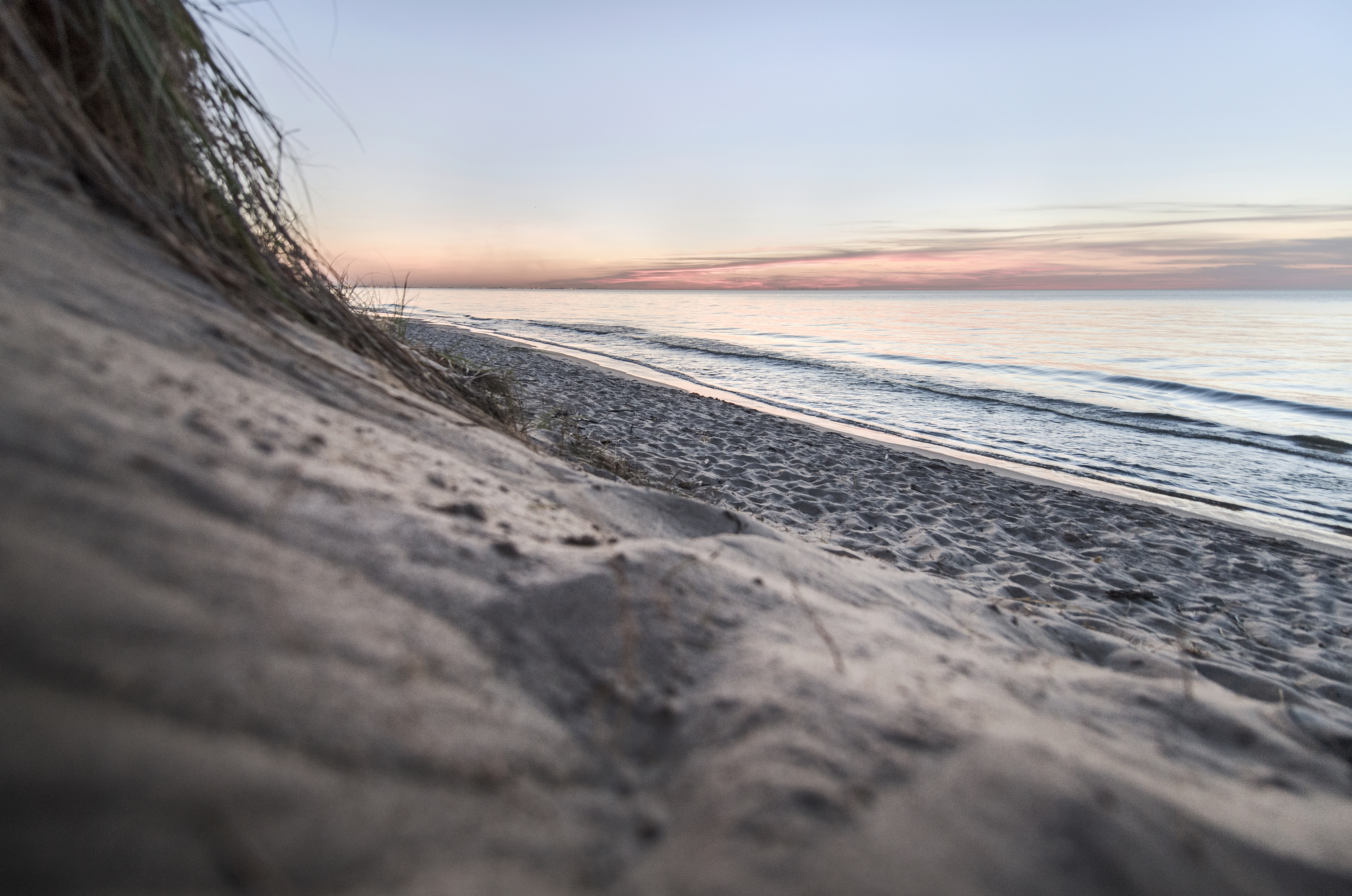 View of Lake Michigan from the shore of Indiana Dunes National Park at sunset. Chicago skyline faintly visible in distance. This image may be used freely under the CC-BY license, but attribution must go to (and a hyperlink must be present if usage is on the web). This image is a part of a series on every US National Park which can be found at at